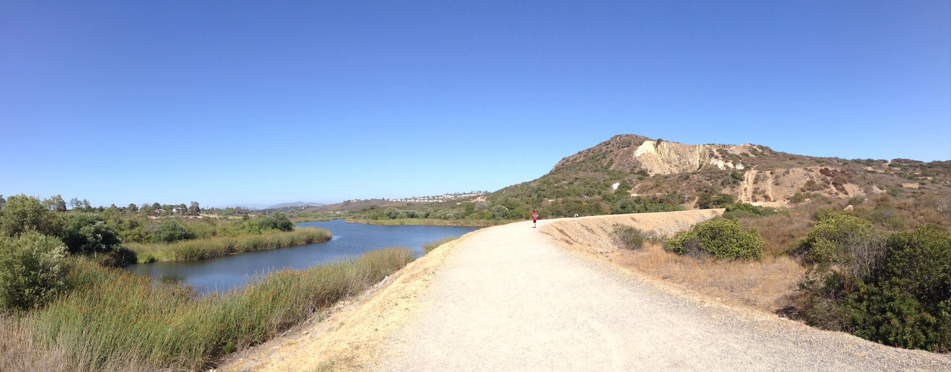 A panorama of Mount Calavera in Carlsbad, California. It was taken on 21 June 2013.